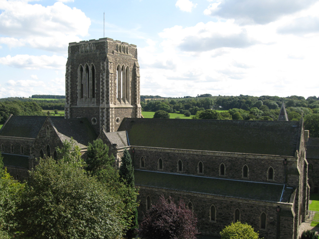 Mount St Bernard Abbey Photo taken from the top of the Calvary